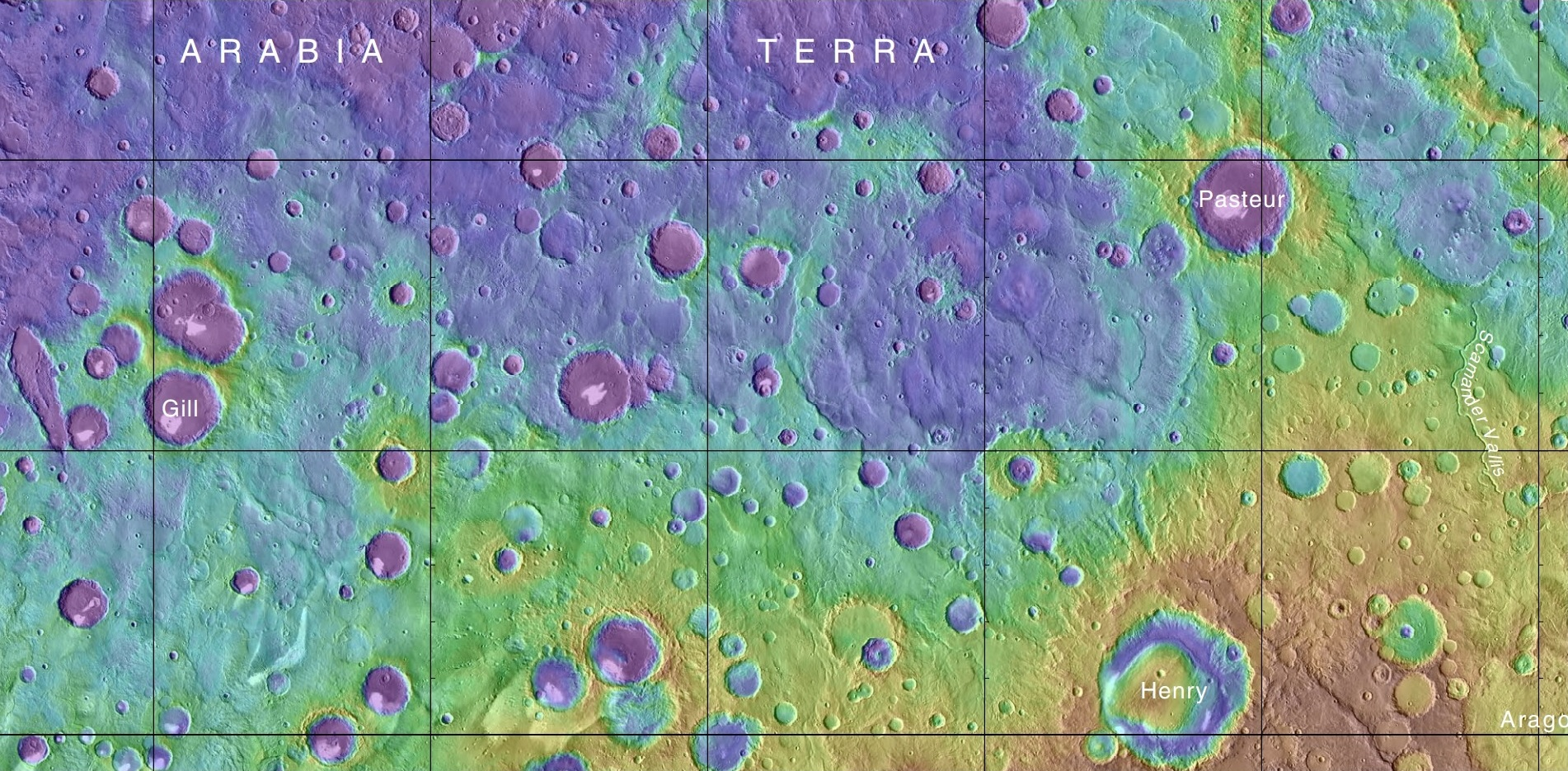 Gill Crater and other nearby craters on mola map